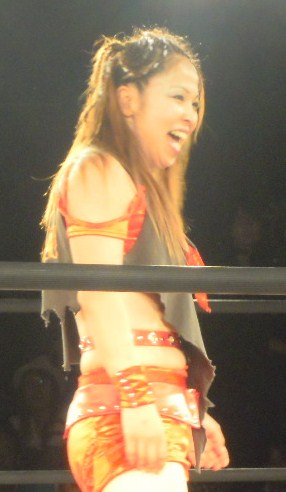 Japanese professional wrestler,Ran You You.July 11 2010,OZ ACADEMY Shinjuku FACE.